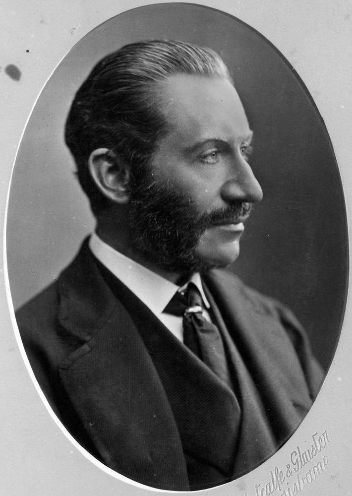 Sir William Cairns, KCMG, Governor of Queensland